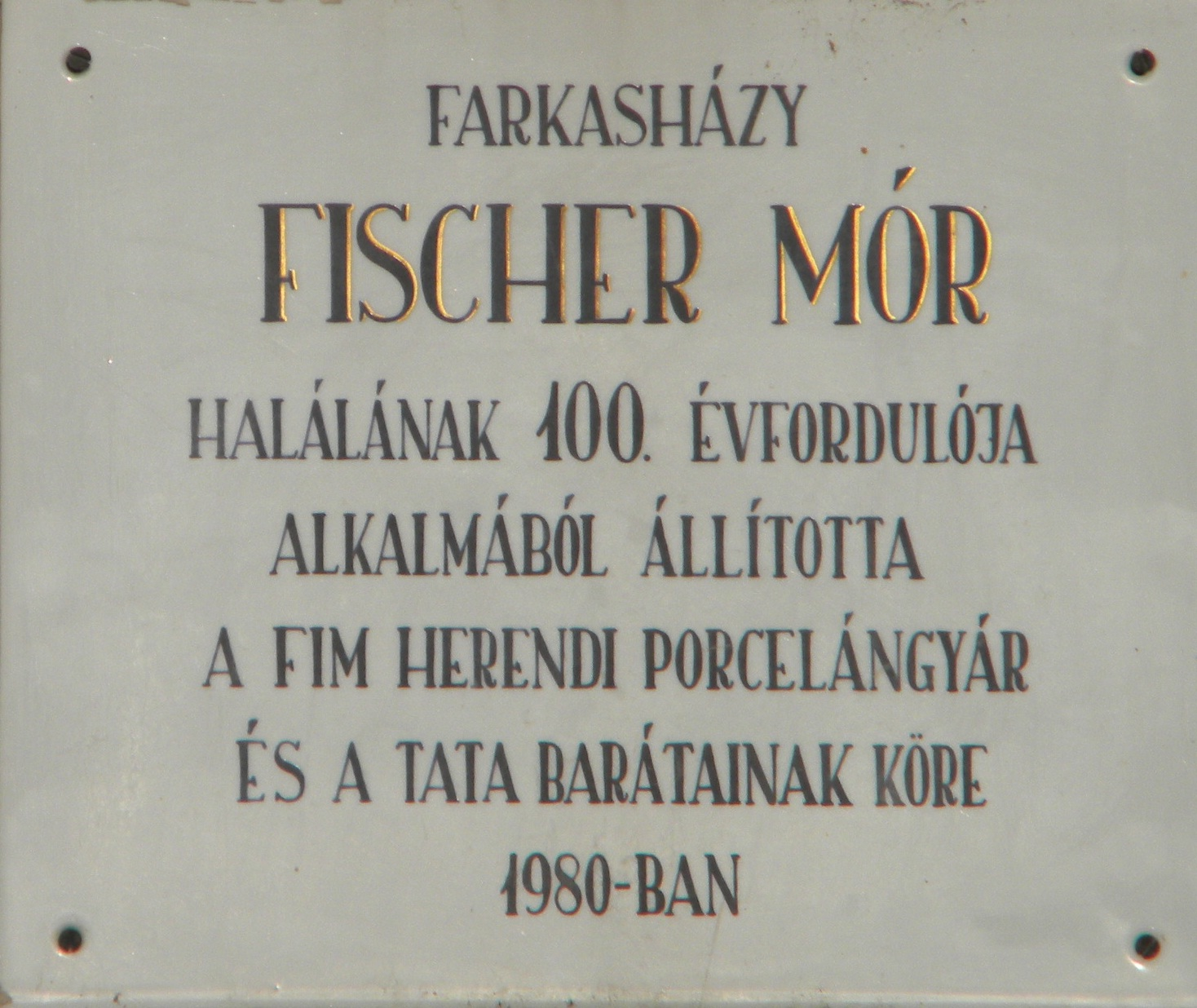 Location: Hungary, Tata